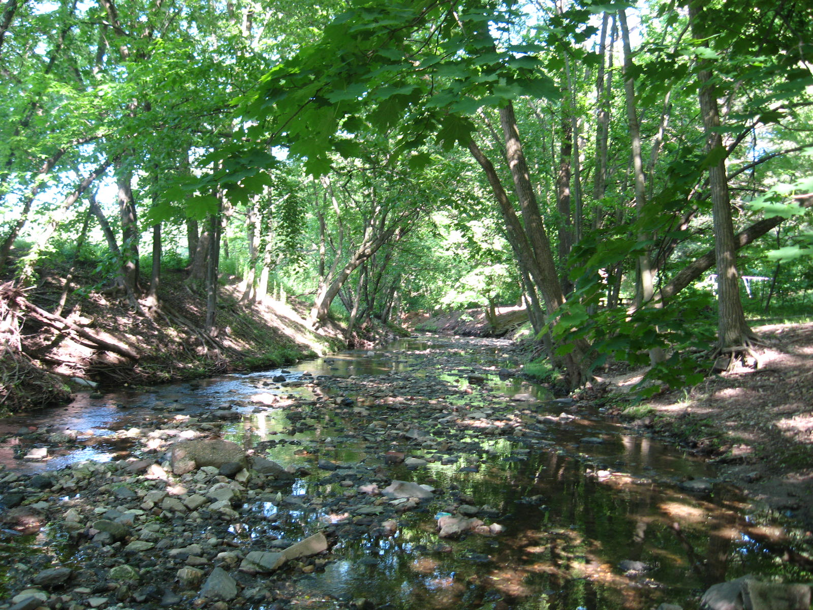 Tookany Creek in Glenside